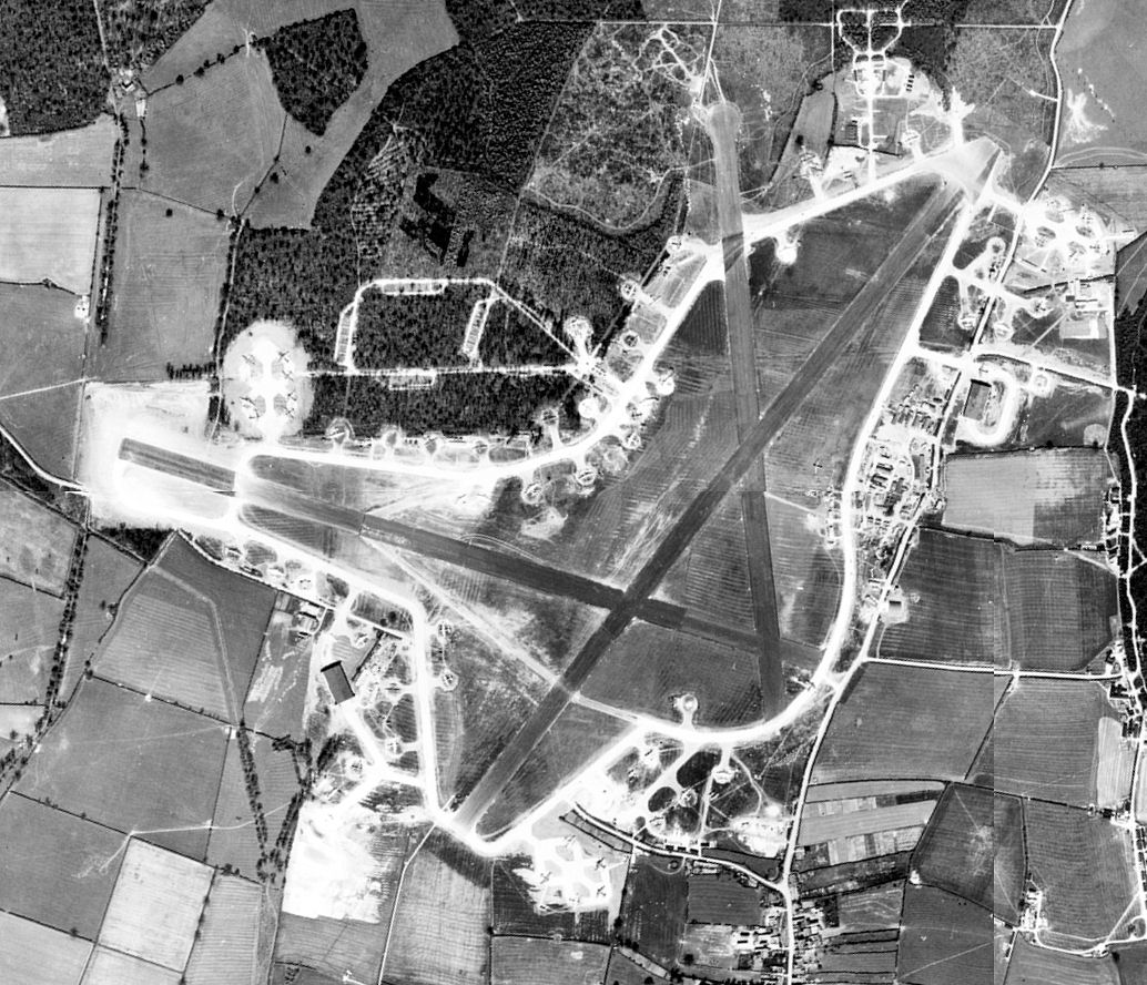 Aerial photograph of Grafton Underwood airfield. The bomb dump is to the north of the perimeter track on the west side of the airfield. 22 April 1944. Photograph taken by 7th Photographic Reconnaissance Group, sortie number US/7PH/GP/LOC309. English Heritage (USAAF Photography).